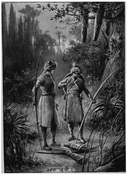 from the book of mahabharata by Romesh Chunder Dutt